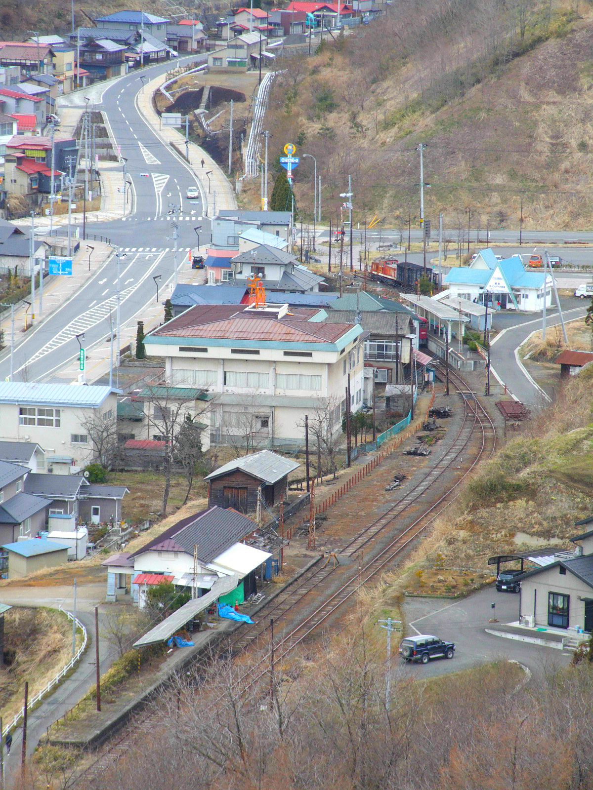 Abondanded Hosokura Station's platform and its building. There is the newer Hosokura Mainpaakumae Station. We can see a red train stopping on the platform. Uguisuzawa, Kurihara, Miyagi Prefecture, Japan.